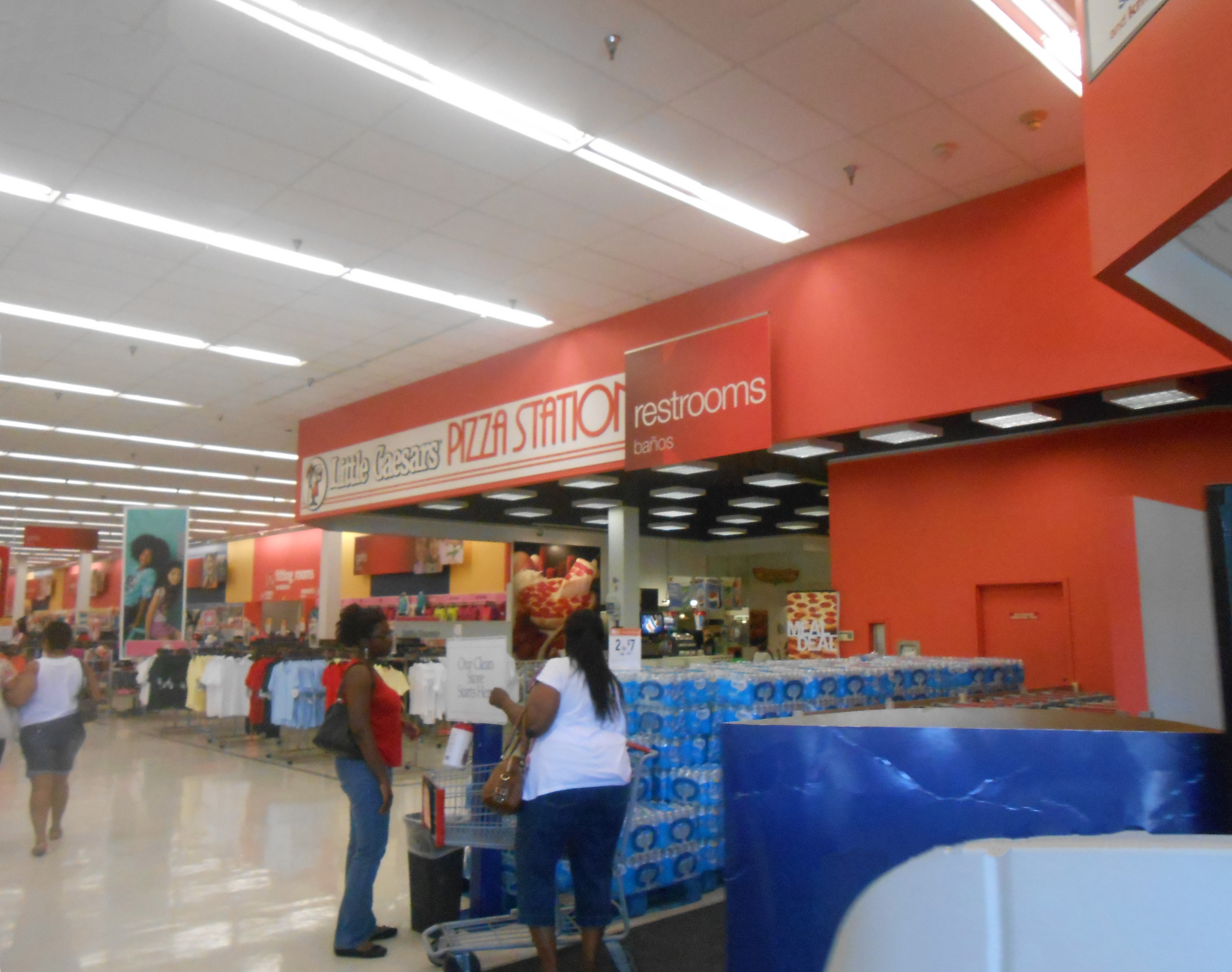 Hollywood Florida